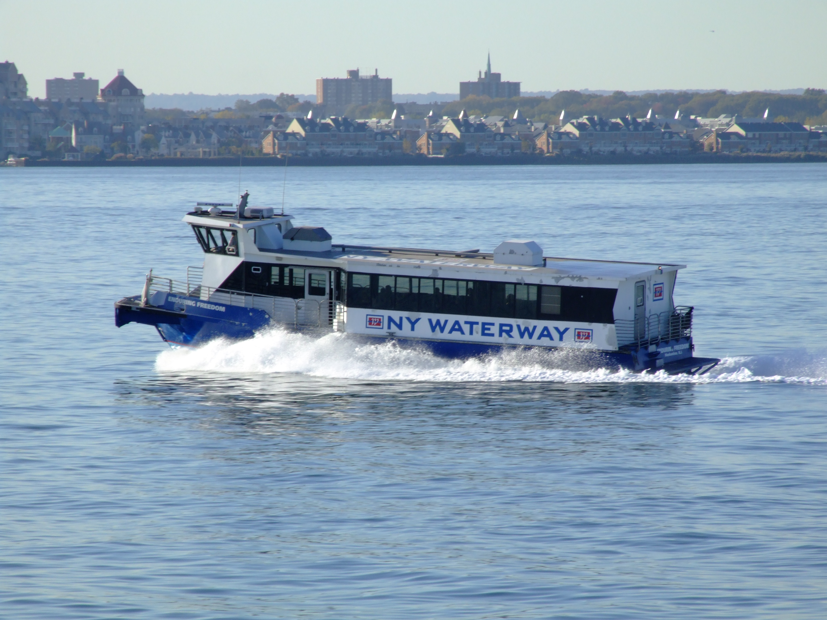 A Ferry of NY Waterway makes its way across the Hudson, as seen from the Staten Island Ferry